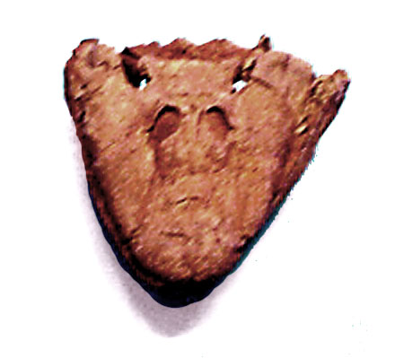 Tiktaalik skull cast (Cast of Tiktaalik skull (front view)), photographed at Science Museum, London, 2006